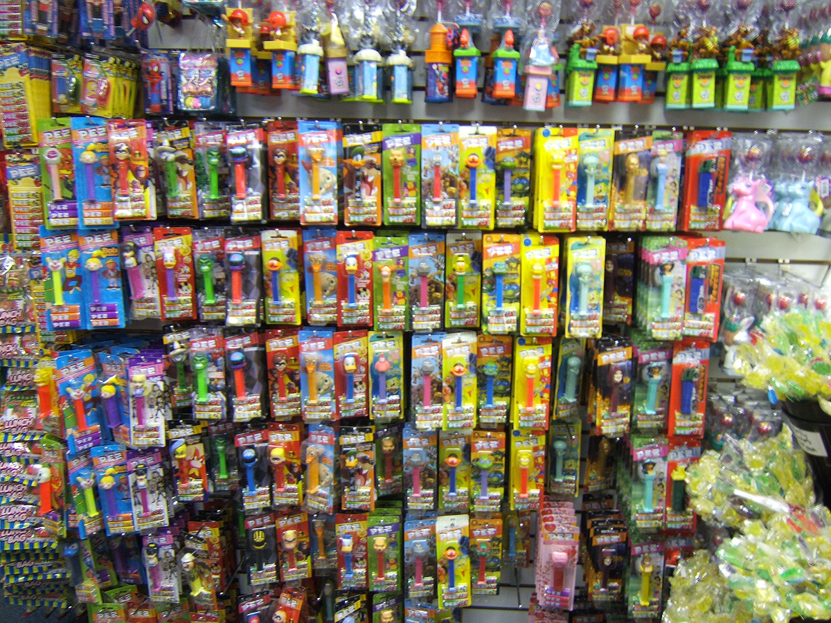 Textures of PEZ dispenser toys.